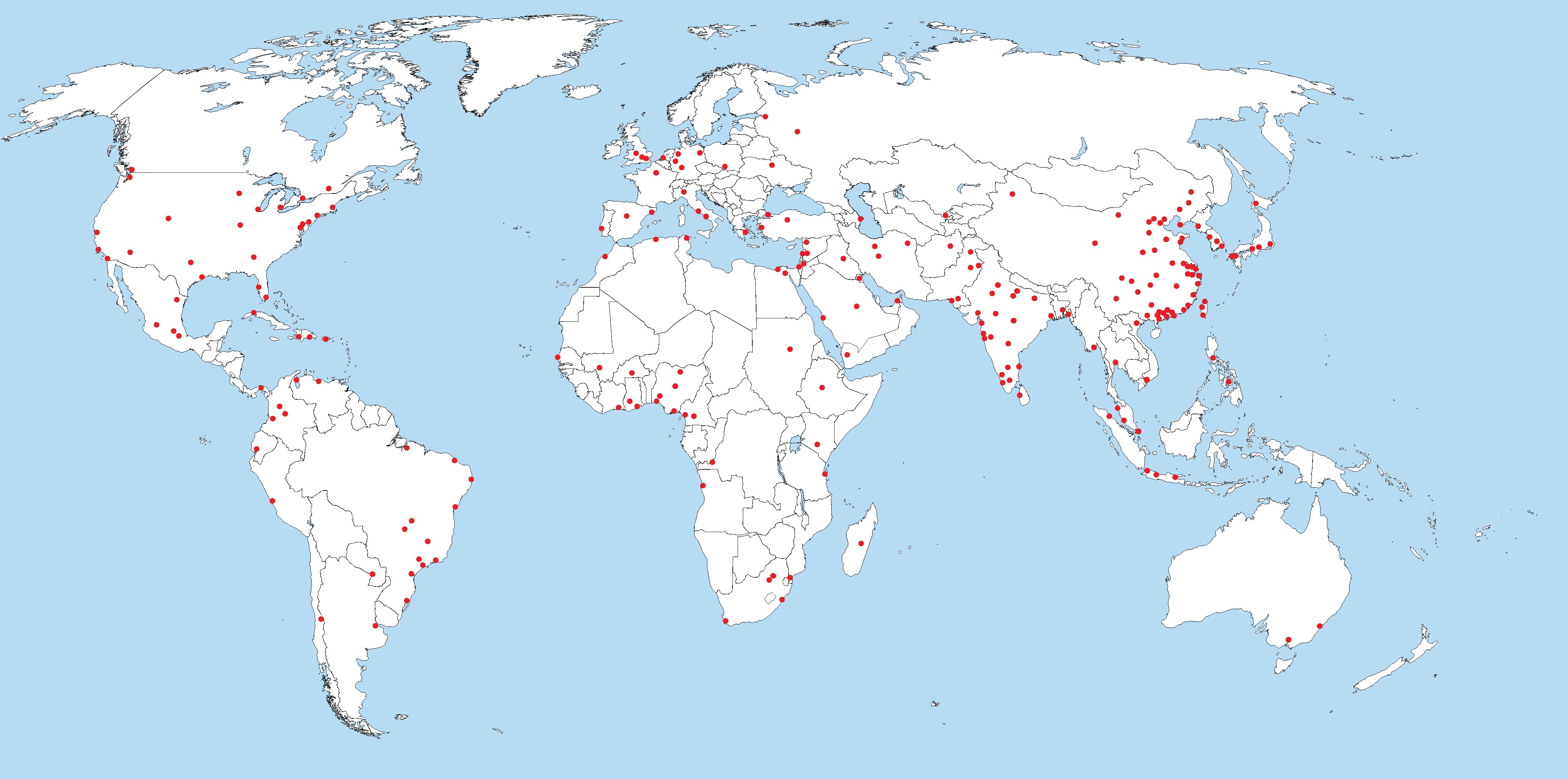 Urban Areas with population of over two million.